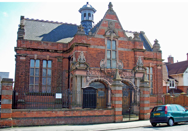 Former County Police Building, Brighowgate By local architect H.C.Scaping. Pevsner says "..former COURTHOUSE, of 1902, in Edwardian Free style, with some Art Nouveau detail".